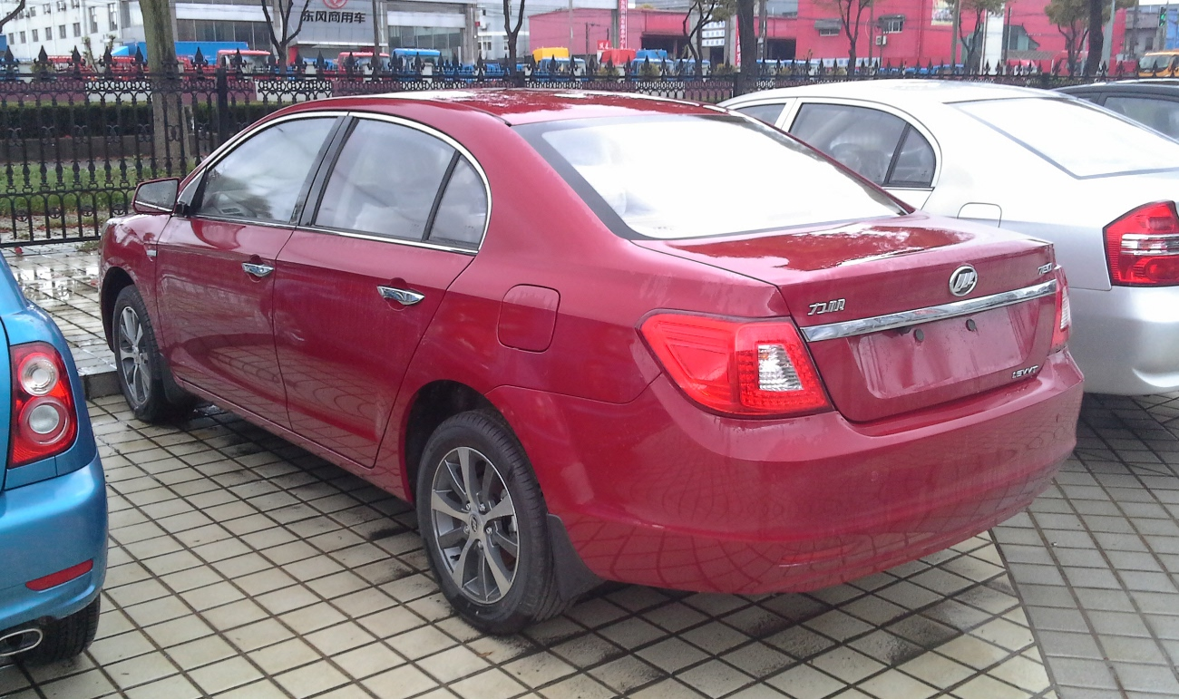 Lifan 720 photographed in Shanghai, China.